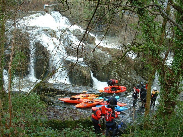 Dolanog Falls. Waterfall on the River Vyrnwy at Dolanog